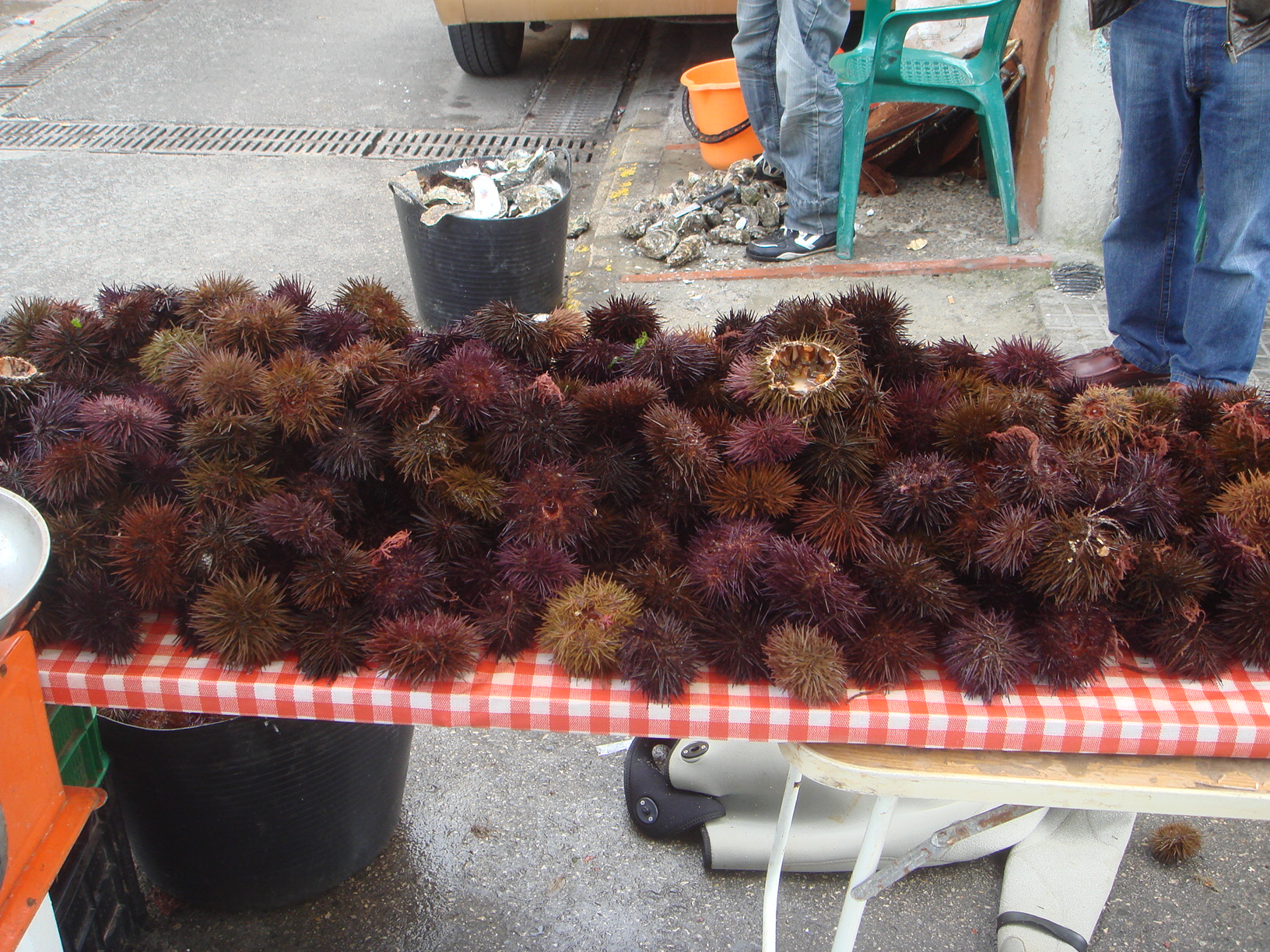 Paracentrotus lividus, Spain, San Fernando, Cádiz.